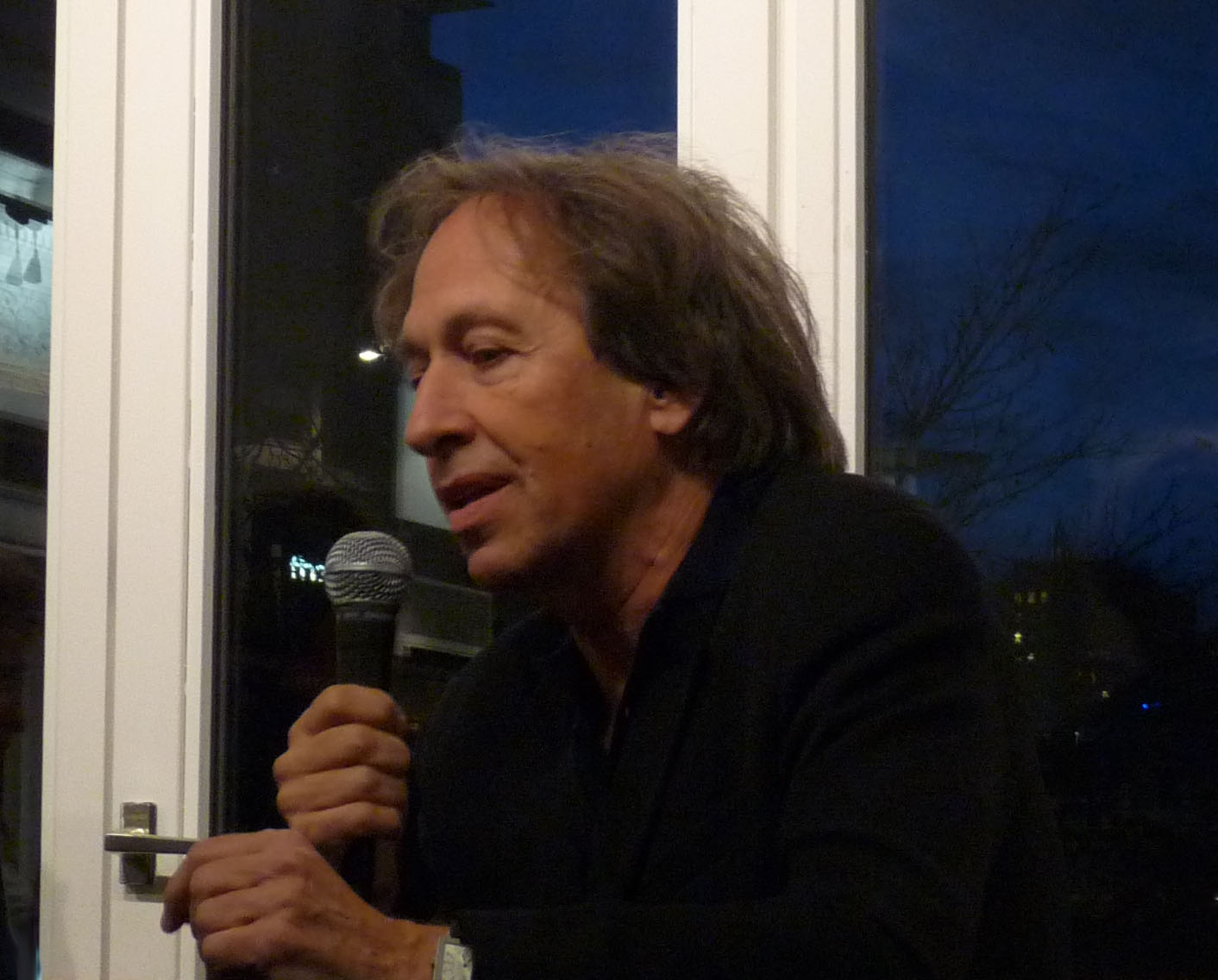 French writer Pascal Bruckner